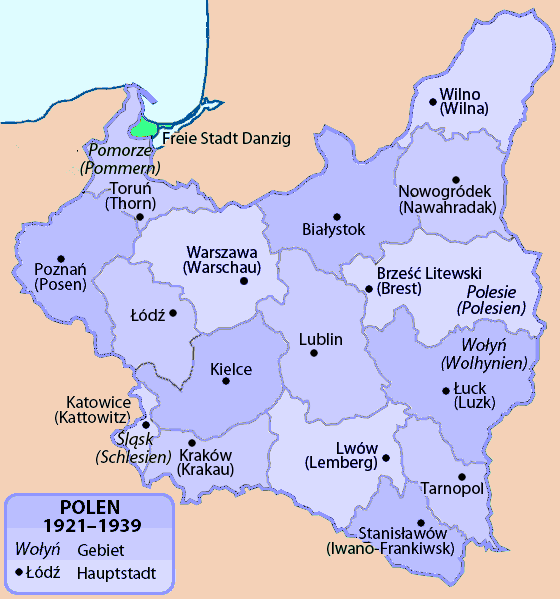 Map of Poland 1921-1939